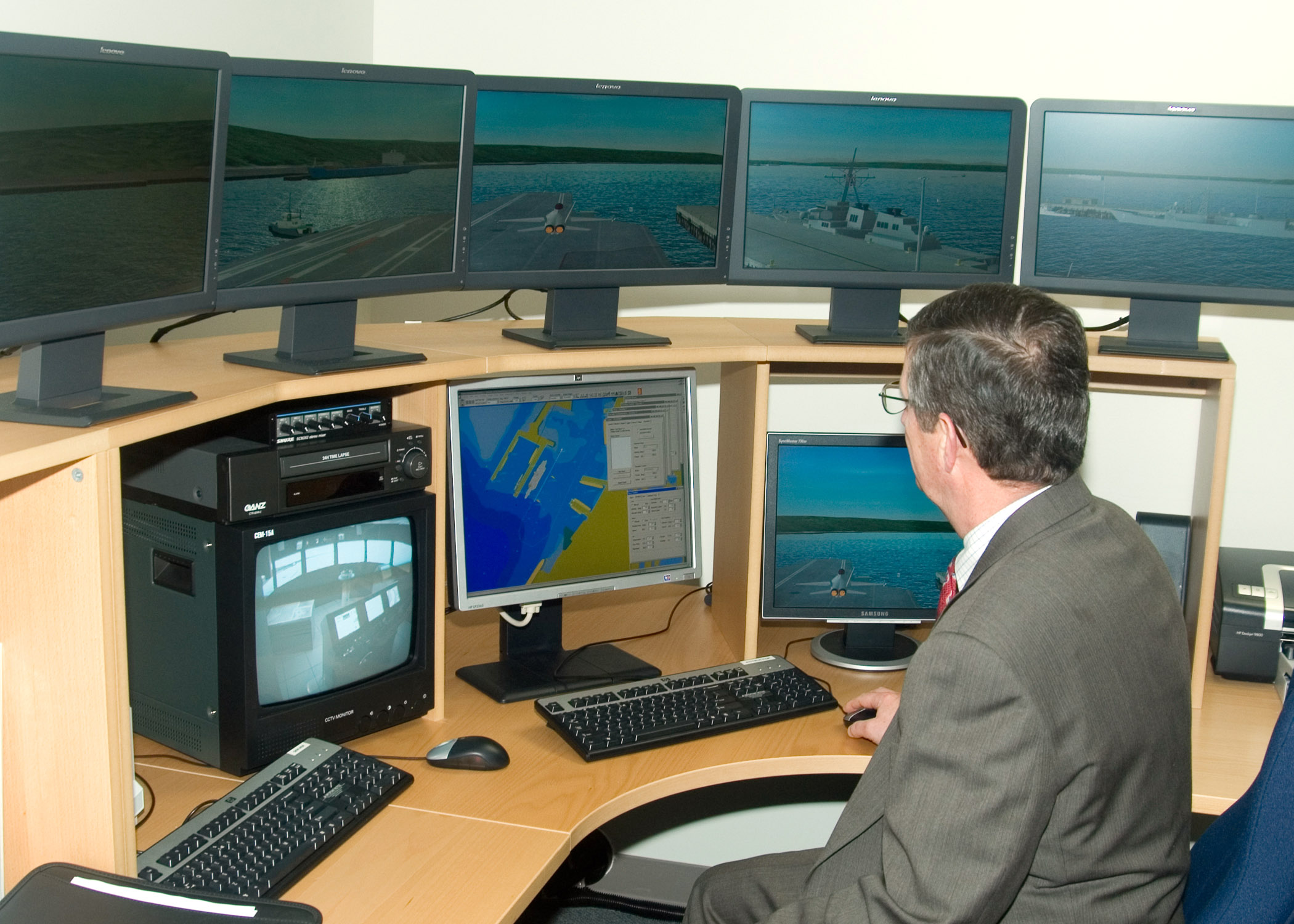 Everett, Wash (Dec 15, 2006) – Mr. Ken Watson from Kongsberg Maritime Simulations Inc, demonstrates operation of the newly installed Navigation, Seamanship and Ship handling Trainer (NSST). The ribbon cutting ceremony took place on Dec 15, 2006 at Naval Station Everett. The Simulator provides shore-based training for bridge watch standing team. U.S. Navy photo by Chief Mass Communication Specialist Jon J. Baker (RELEASED)